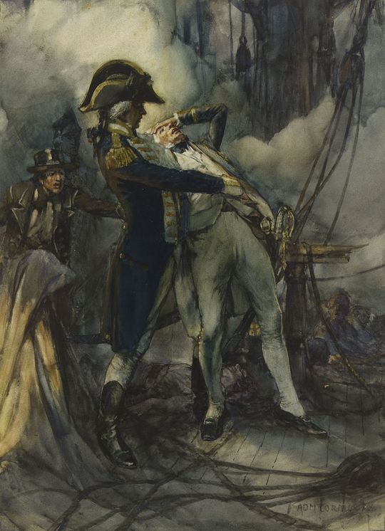 Captain Edward Berry catching Nelson as he falls wounded at the Battle of the Nile.